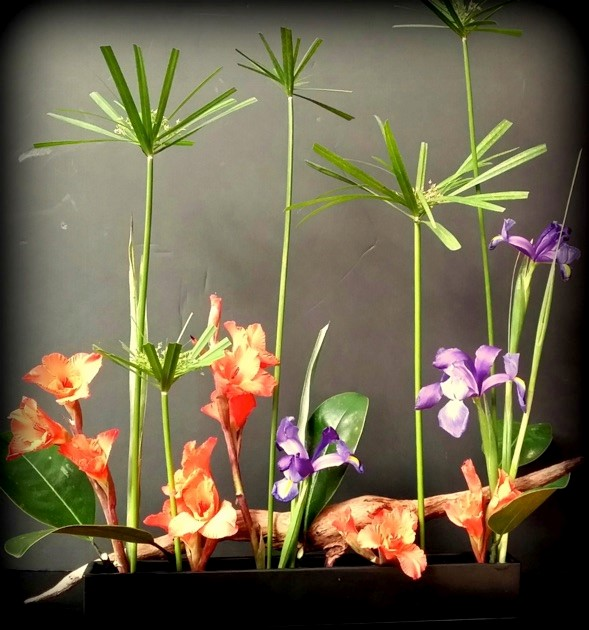 14. Hashibana Saba design is a combination of Dutch Iris and Gladioli with Papyrus and Magnolia leaves. Driftwood from Waialua, HI and classic container from the Daikakuji Temple in Kyoto, Japan. Created by Ric Bansho Carrasco during Epcot Flower and Garden Festival in 2014.